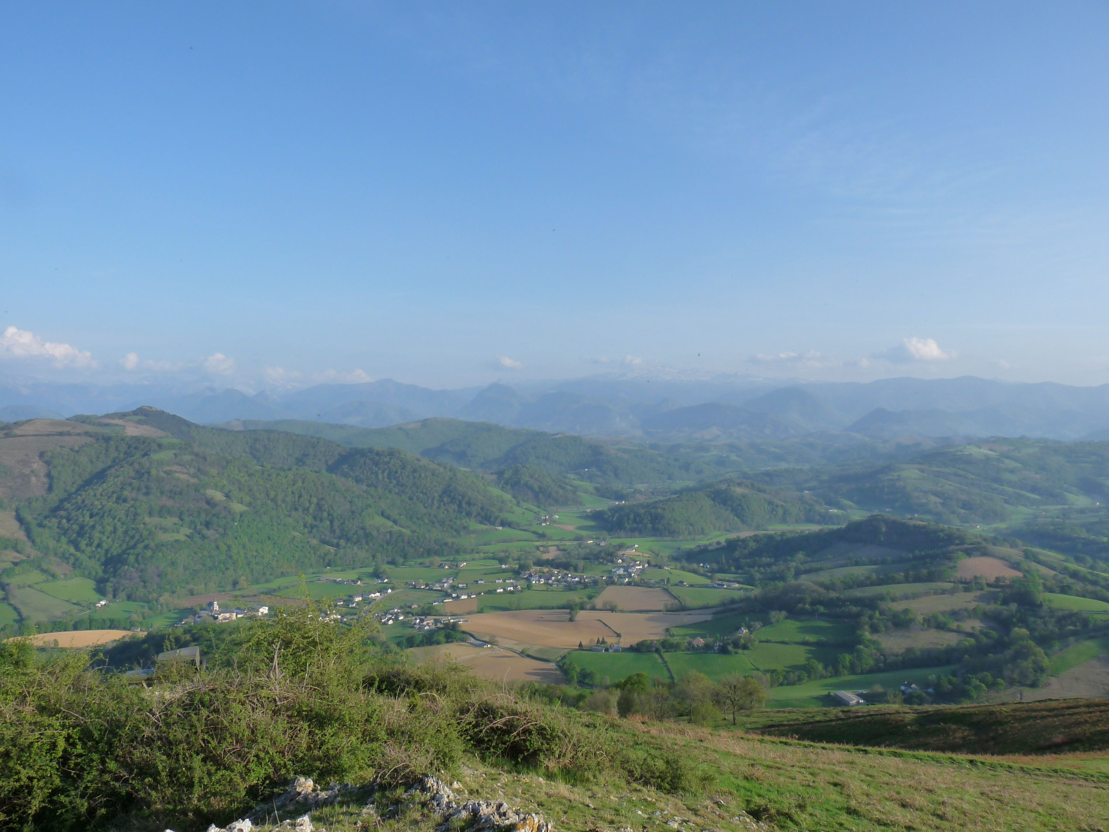 Barcus in the Mountains